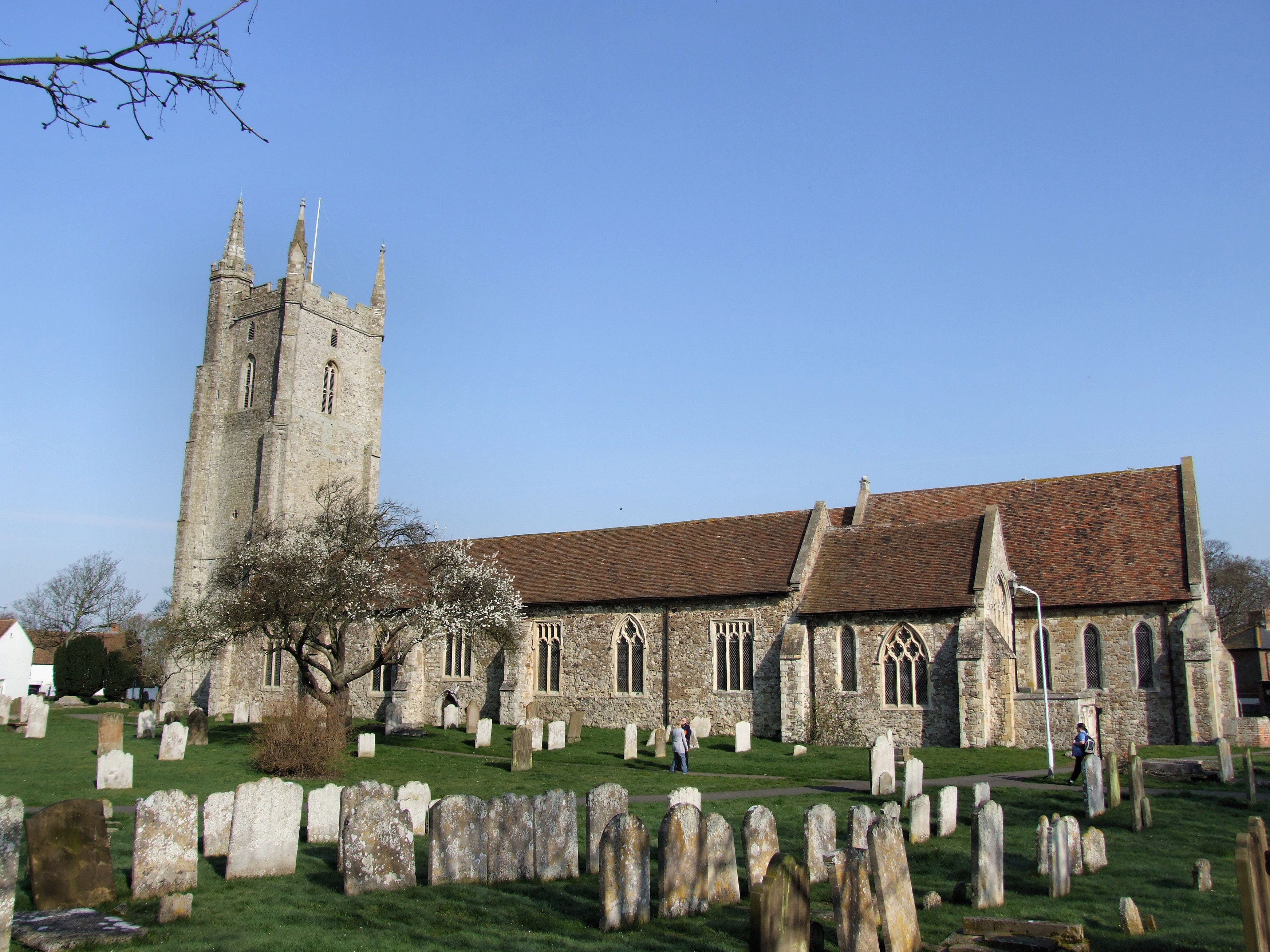 All Saints' parish church, Lydd, Kent, seen from the southeast